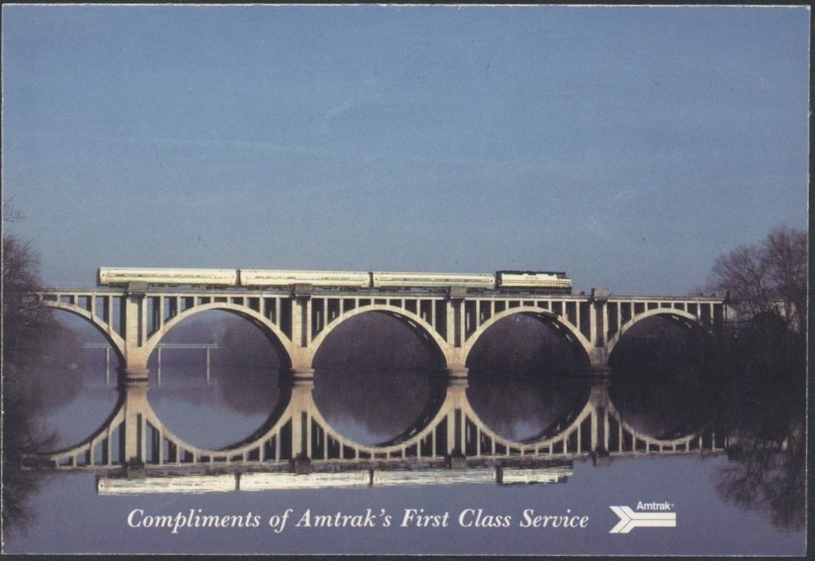 1980s Amtrak-published postcard of the Colonial crossing the Rappahannock River in Fredericksburg, Virginia in the 1980s